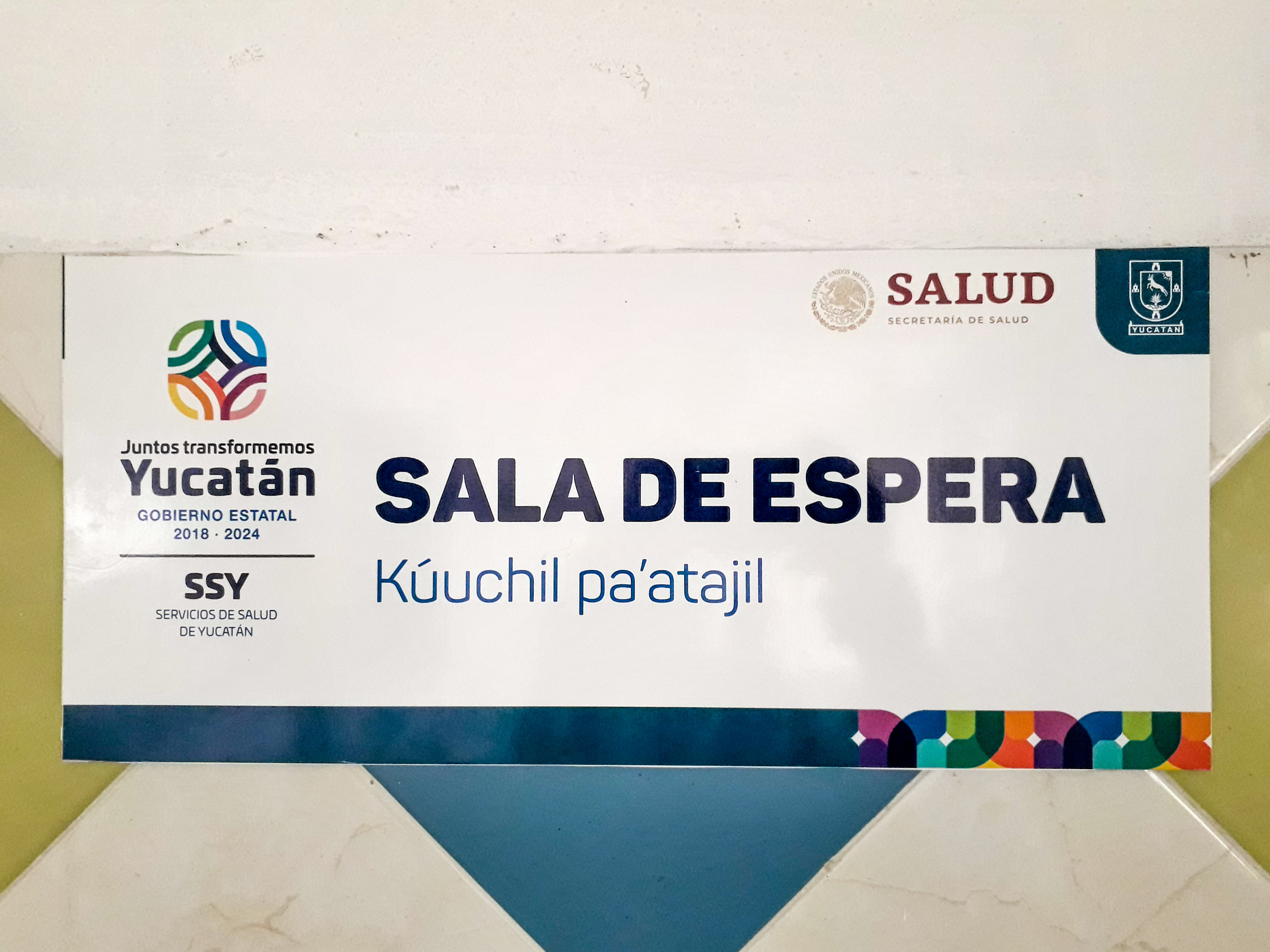 Waiting room in spanish and yucatec maya, in a health care unity, in Yucatan.